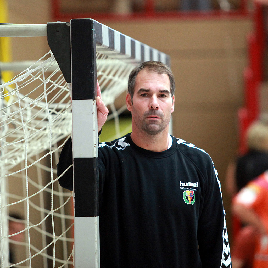 Tomas Svensson, the Swedish handball goal keeper from BM Valladolid, during the Schlecker Cup 2009 in Ehingen (Germany)